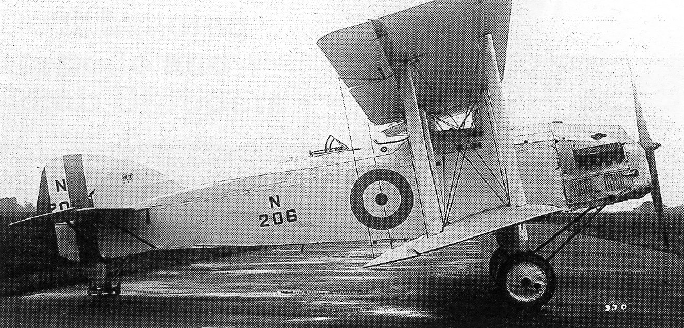 Handley Page 31 Harrow N206, the second aircraft, in late 1926